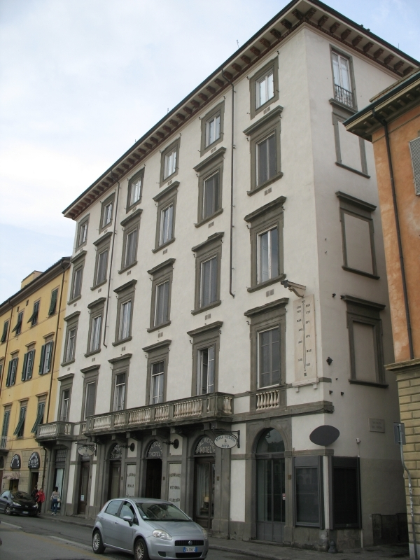 The modern frontage of the hotel